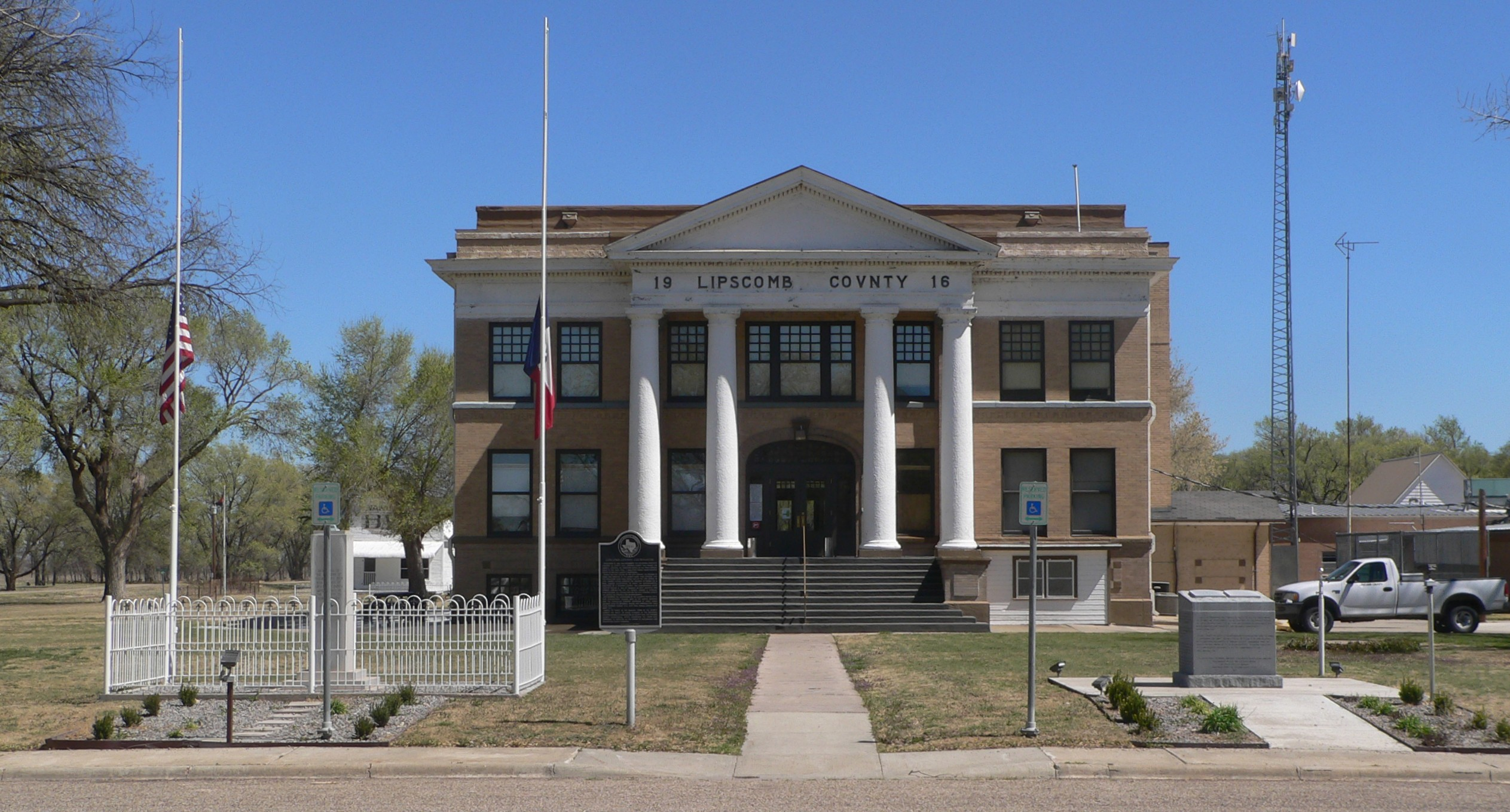 Lipscomb County courthouse in Lipscomb, Texas; seen from the west.